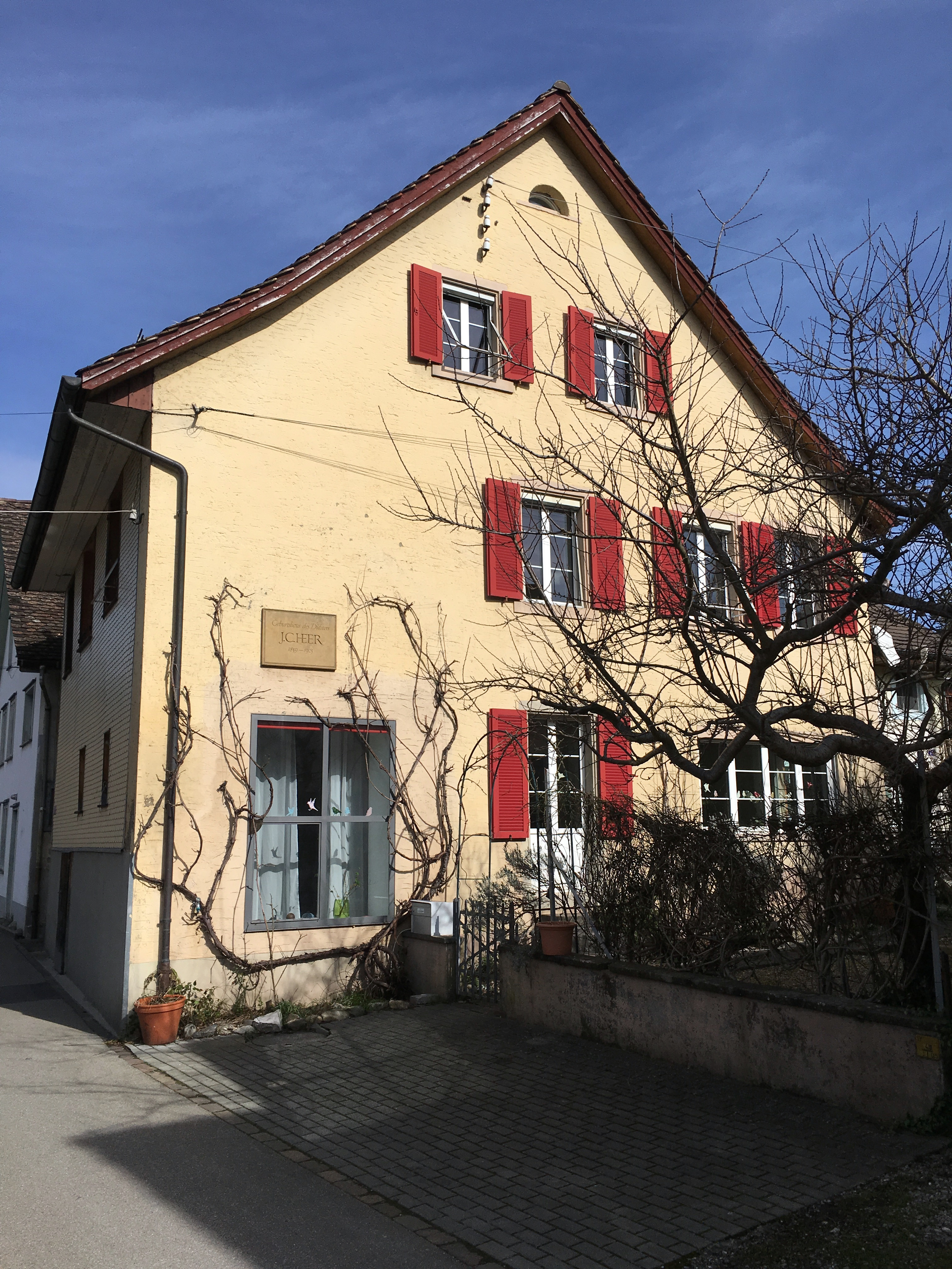 Birthplace of the poet Jakob Christoph Heer